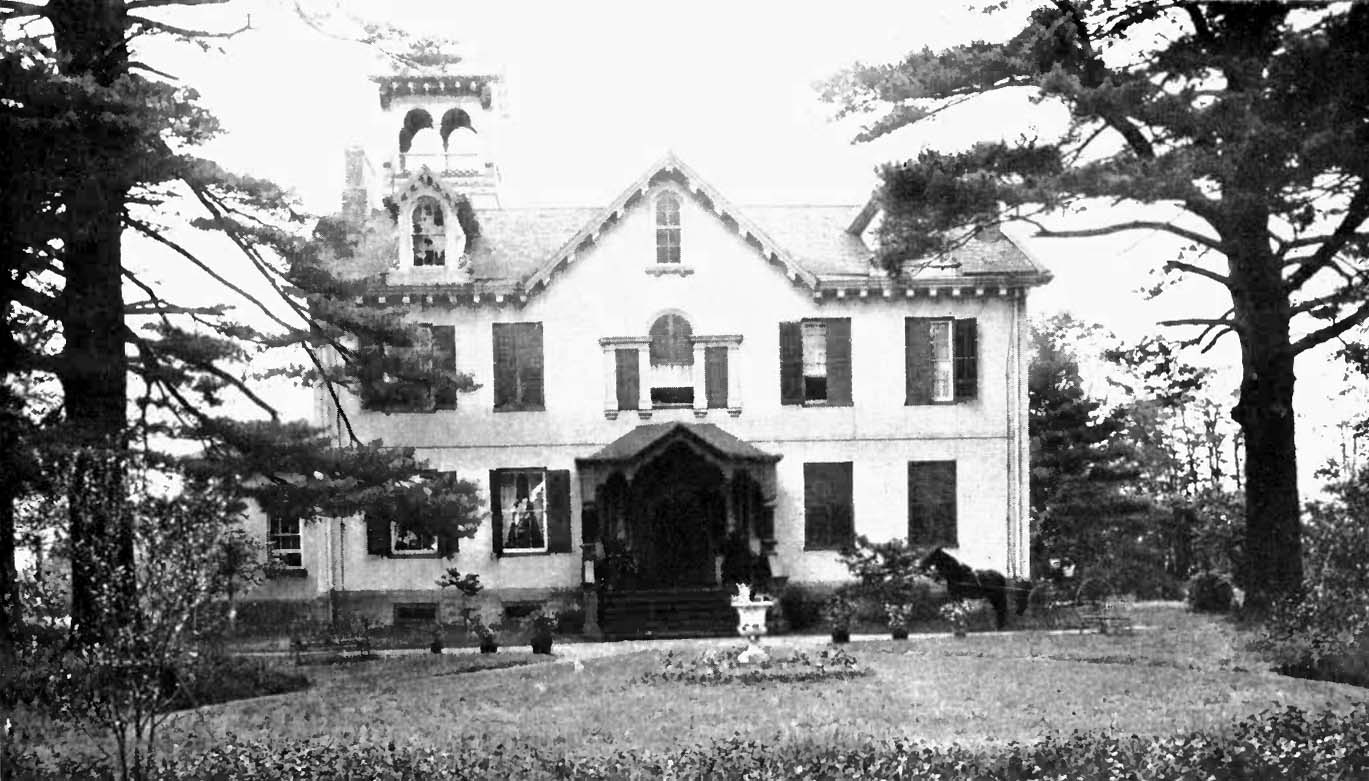 Photograph of Lindenwald, home of President of the United States Martin Van Buren